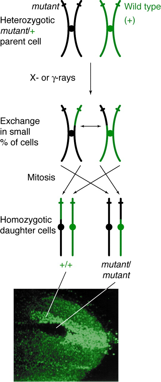 FRT-induced mitotic recombination, catalyzed at FRTs by hs-FLPase. The photograph shows several engrailed clones, lacking anti-Myc staining (green), in a pupal wing blade. FRTs, FLPase recombination targets; hs-FLPase, heat-shock-induced FLP recombinase.